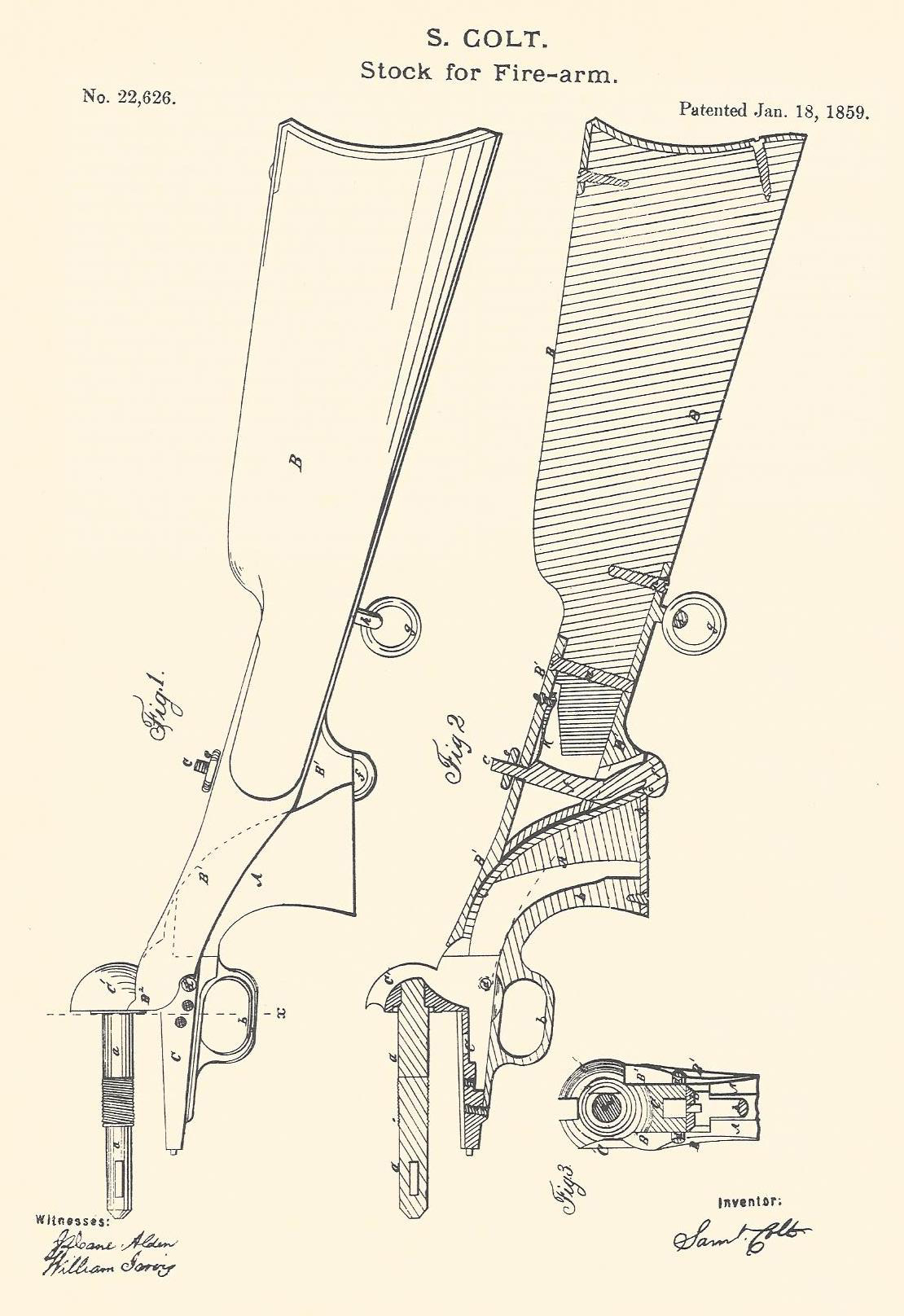 Stock for Colt